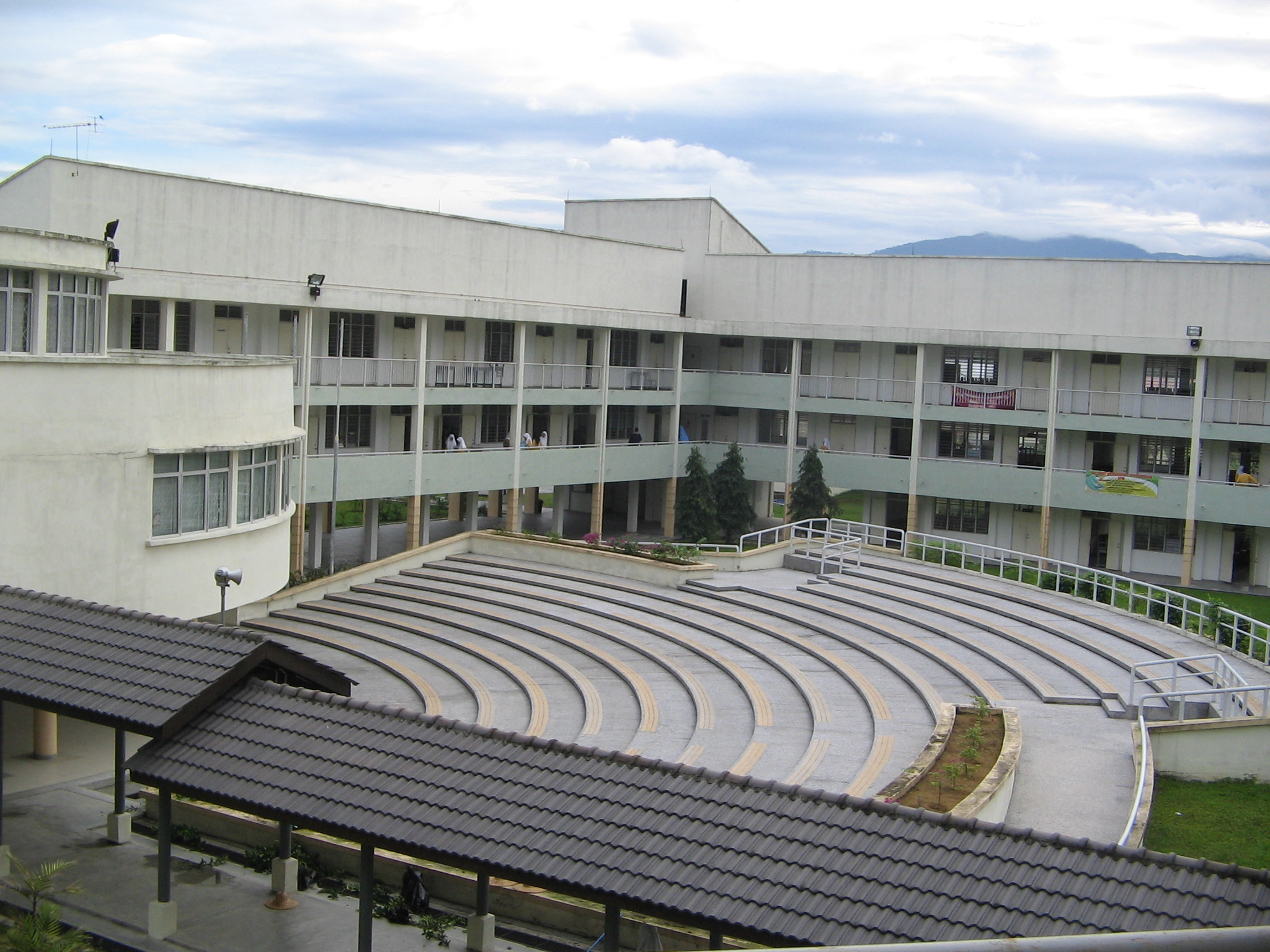 captured and edited by the author